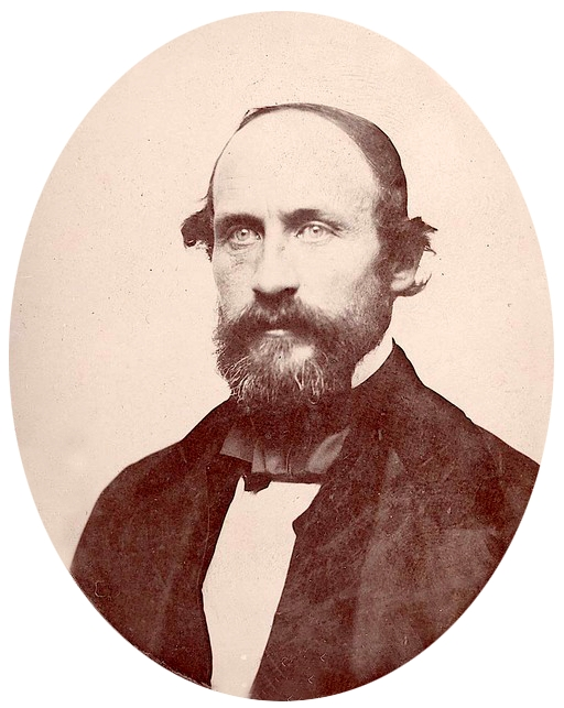 Charles L. Robinson (1818–1894), the first Kansas governor, Kansas Historical Society